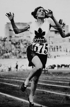 Canadian olympic runner Myrtle Cook - cropped